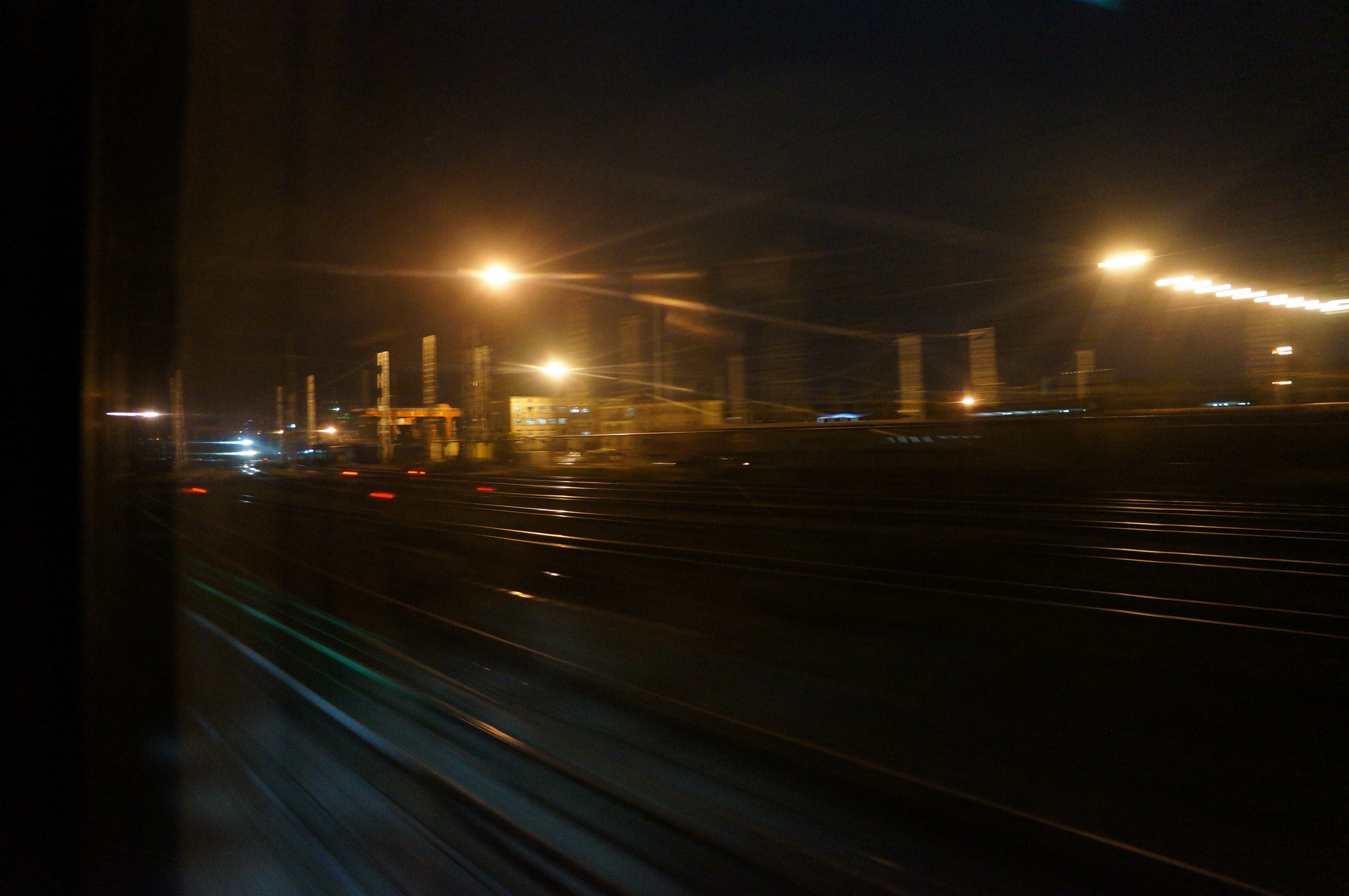 201606 Z9 passes Jixi Station2